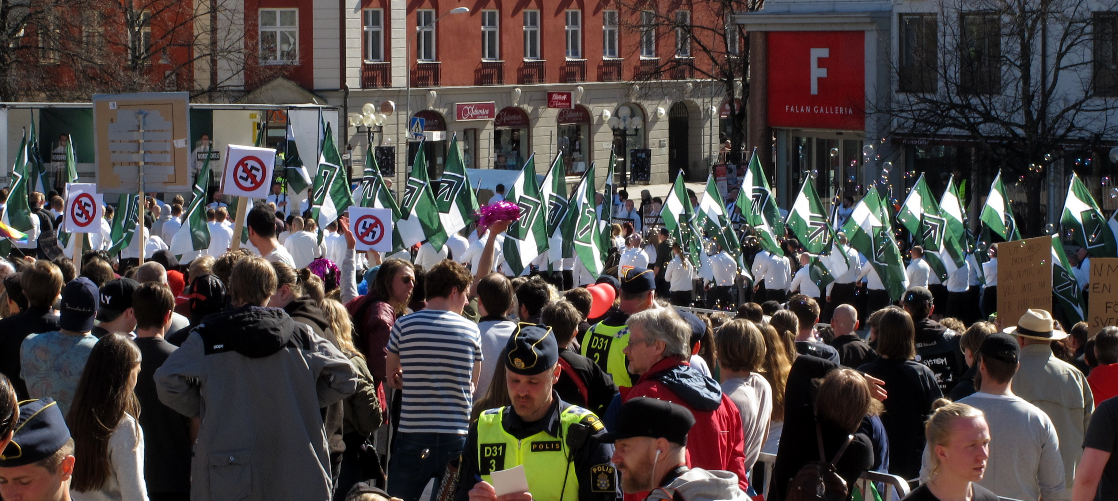 Nordic resistance movement and counter demonstrators in Falun 2017.